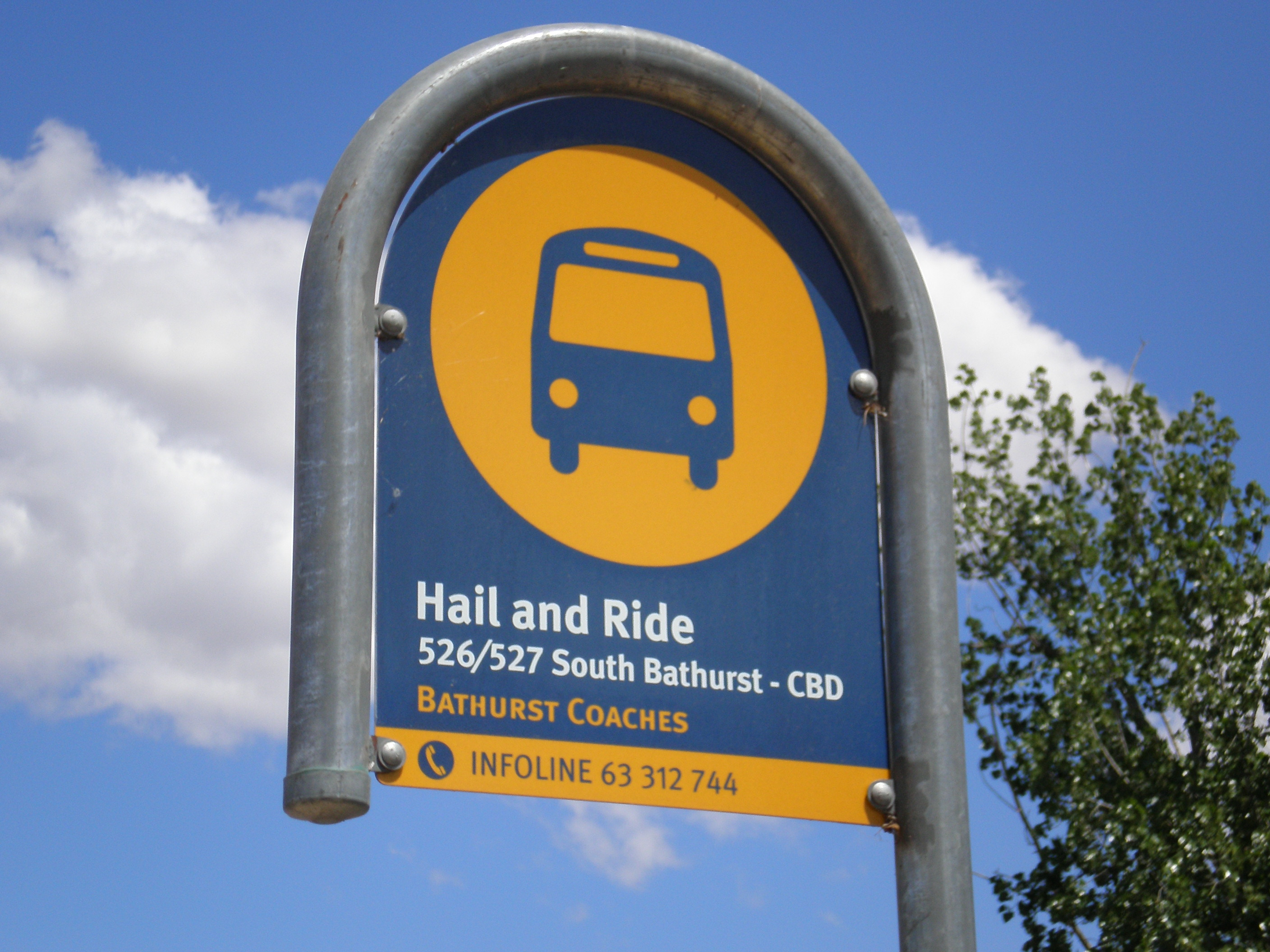 A typical bus stop in Bathurst. This bus stop is on Panorama Avenue, opposite Bathurst TAFE, and is minutes from Mount Panorama. This stop is serviced by route 526 to the city centre.